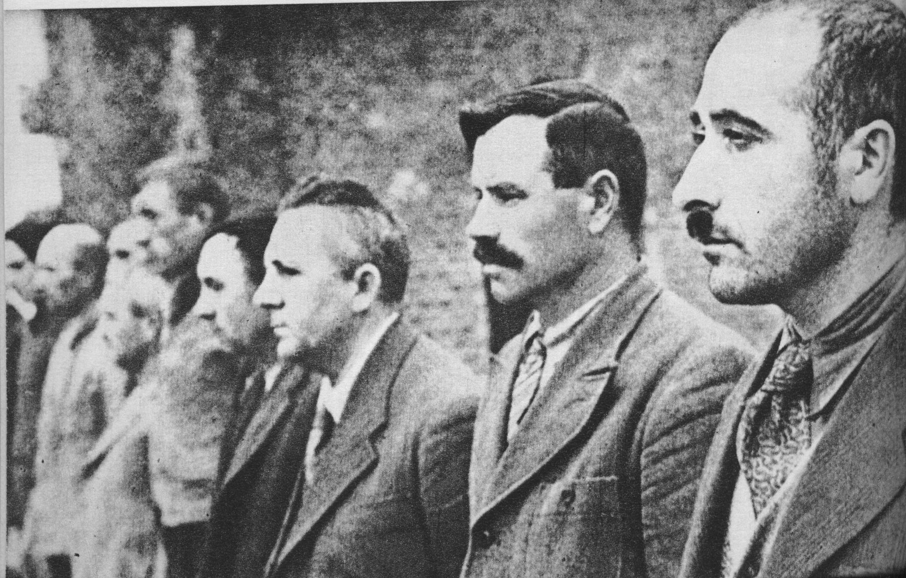 German internment camp in Fort VII of Toruń Fortress. Polish prisoners during the roll call. In the first months of German occupation few thousand Poles were imprisonment in Fort VII. At least 600 of them were executed in Barbarka forest. One of them was Ignacy Styczeń from Gostkowo (second from the right).